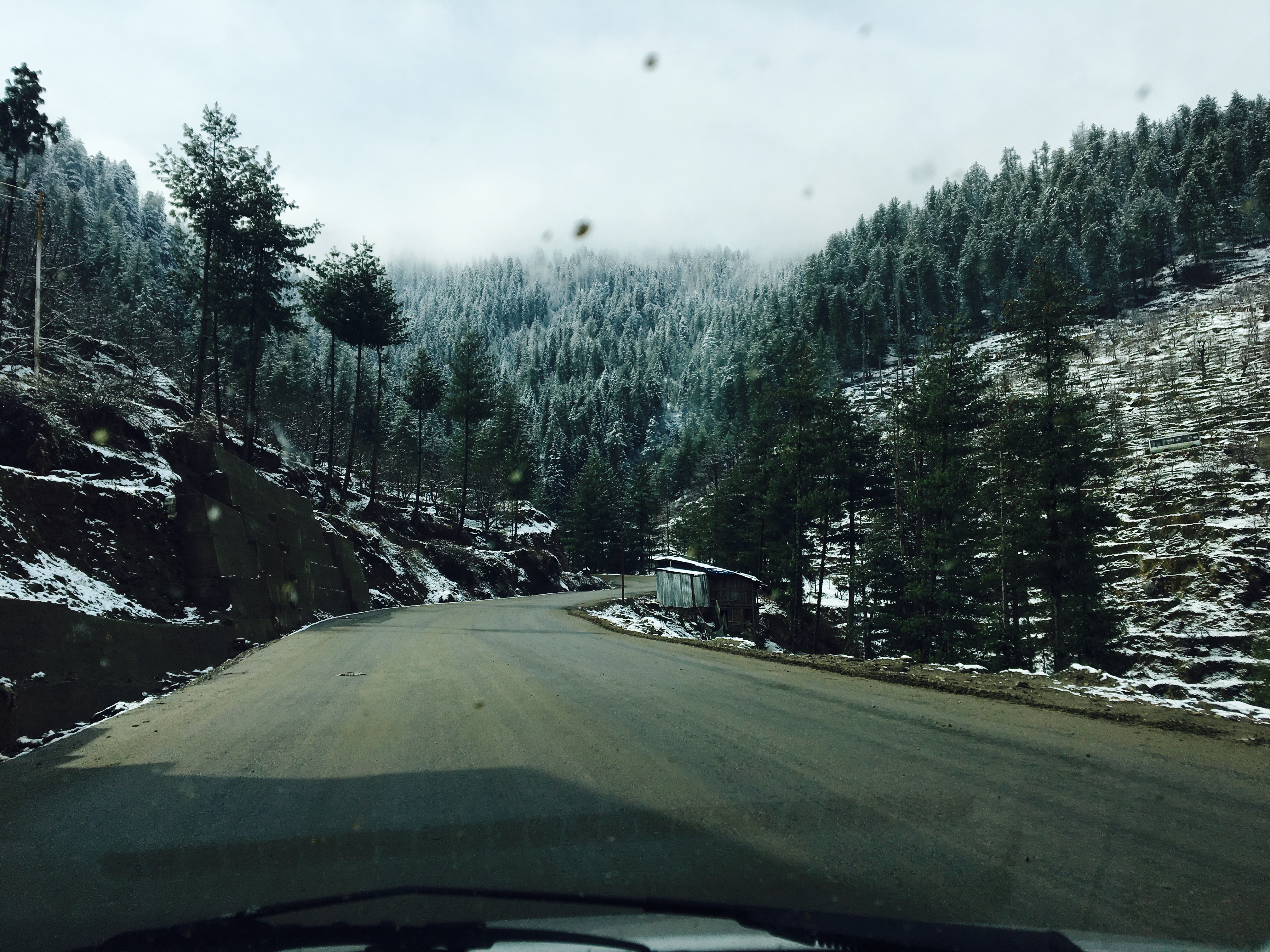 Way to Rohru has been improved